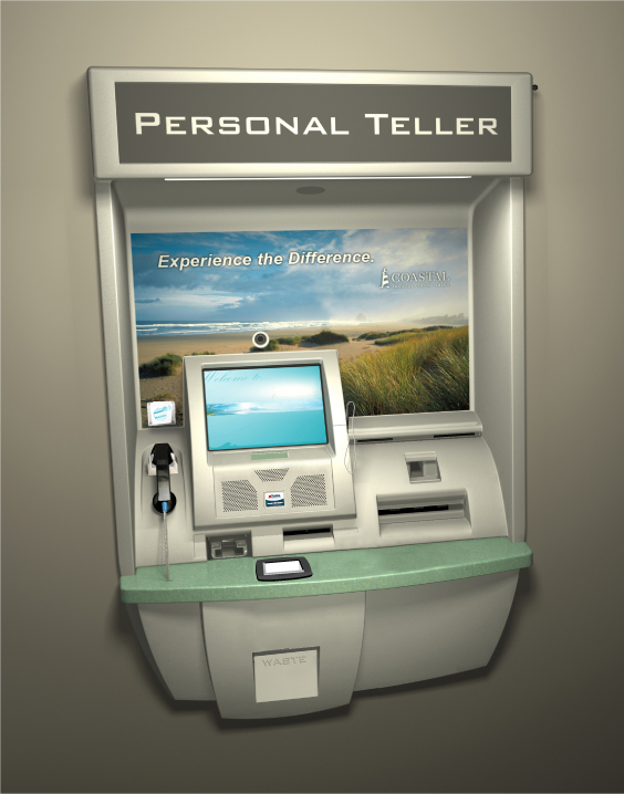 Graphical photo of a uGenius Personal Teller Machine that has been customized for a Coastal Federal Credit Union production deployment.